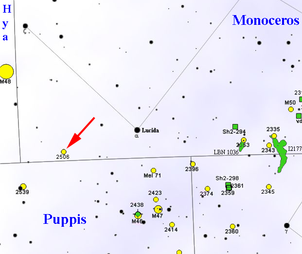 Map of NGC 2506